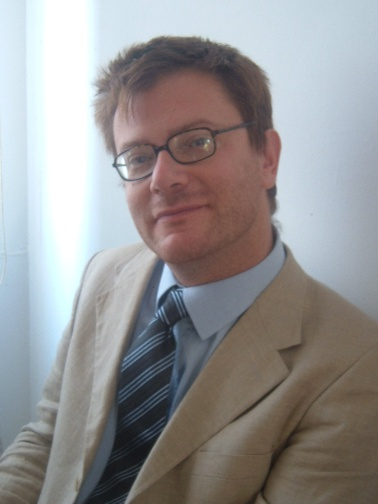 Portrait for wikipedia article